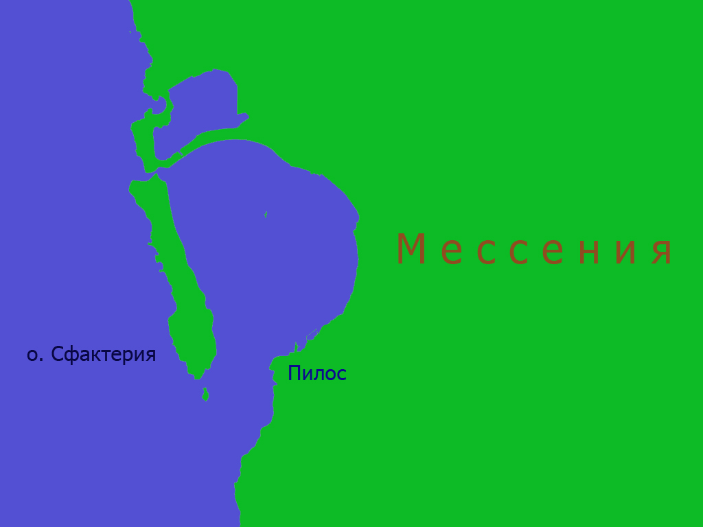 Pylos